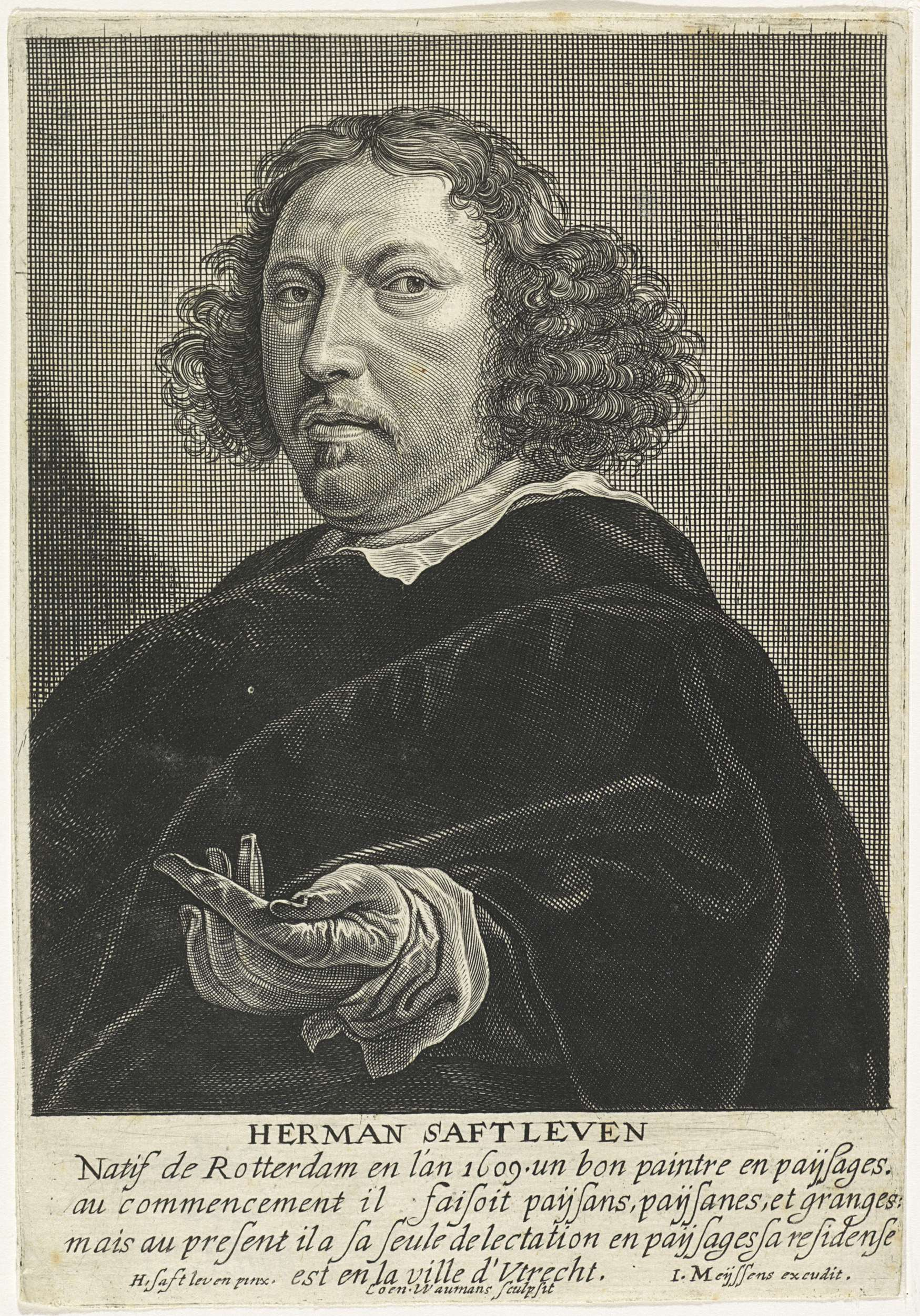 Portrait of the painter Herman Saftleven